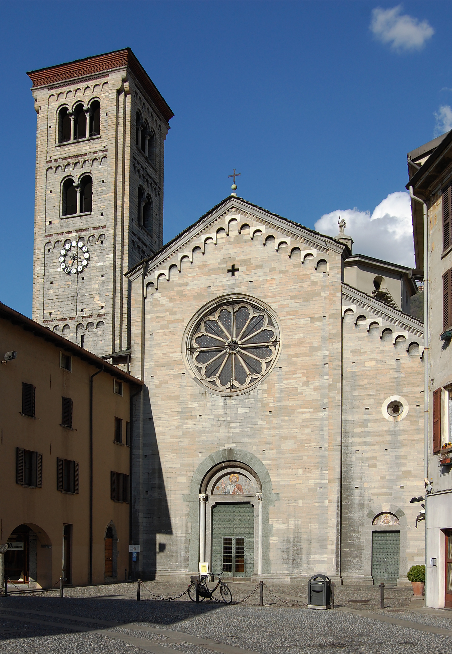 San Fedele church, Como (Italy).